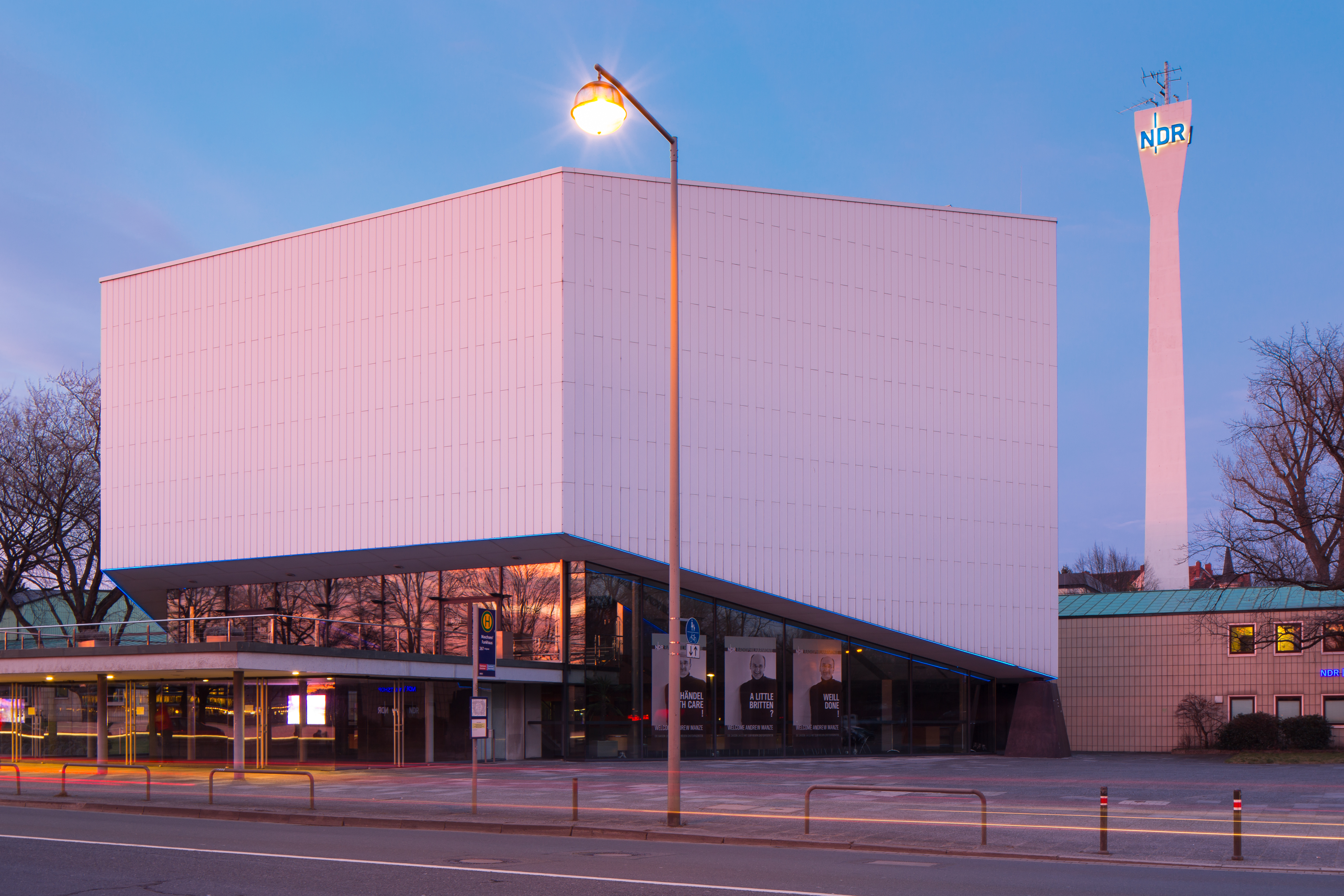 Broadcast station of North German Broadcasting (NDR) located at Rudolf-von-Bennigsen-Ufer street in Suedstadt district of Hannover, Germany.